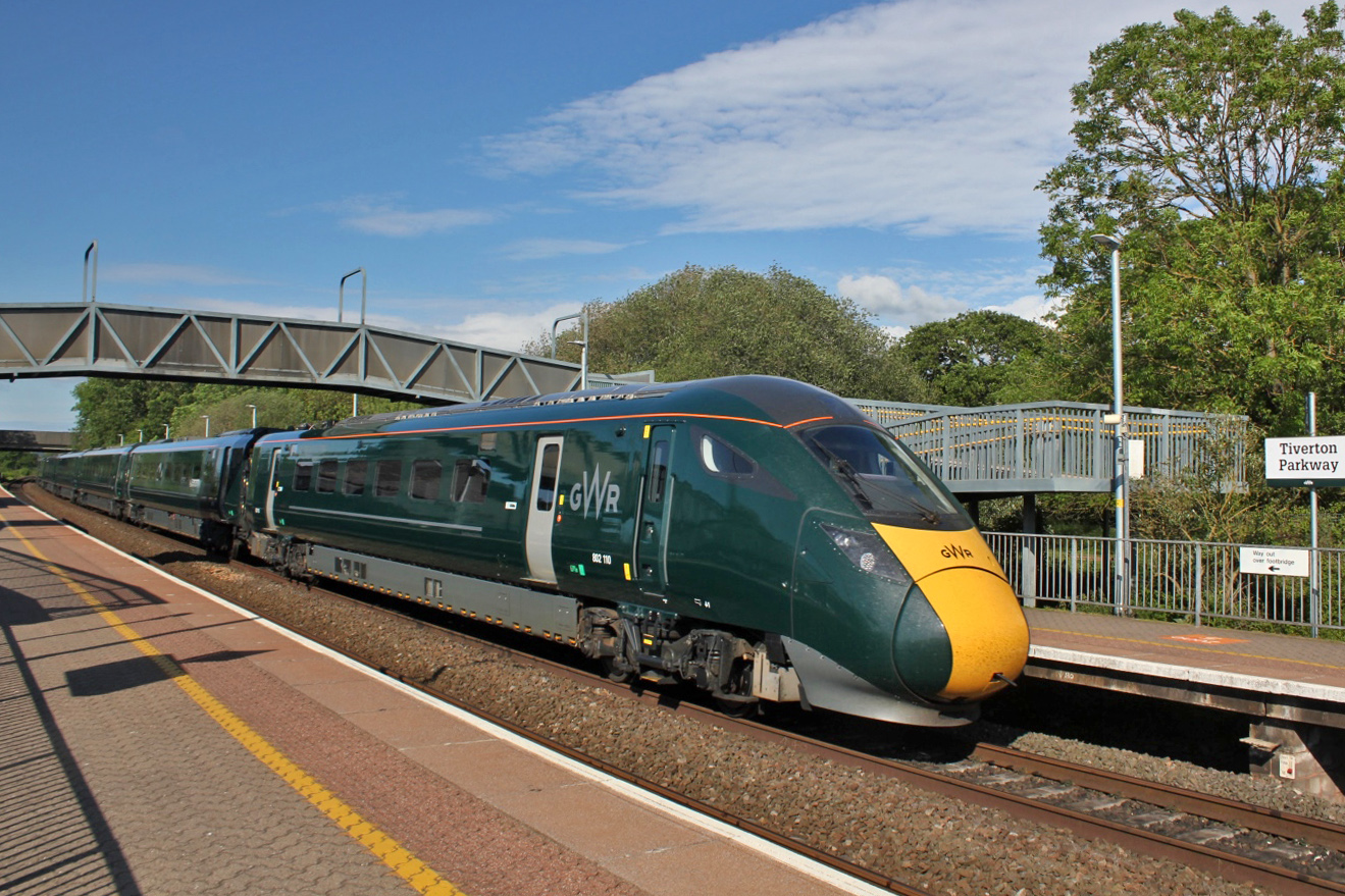 Great Western Railway 'InterCity Electric Train' 802110 arrives at Tiverton Parkway with a Paddington to Plymouth service.